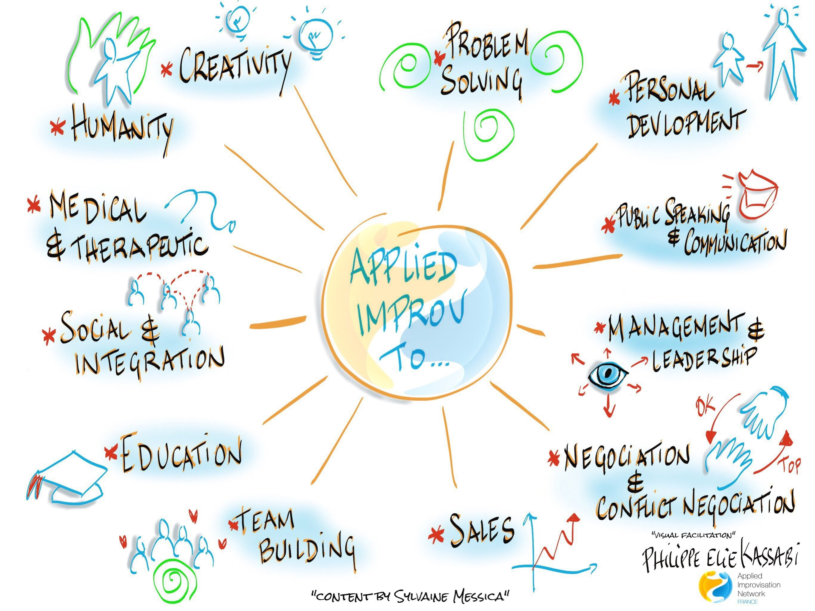 Vizualizing fields where Improvisation can be applied.